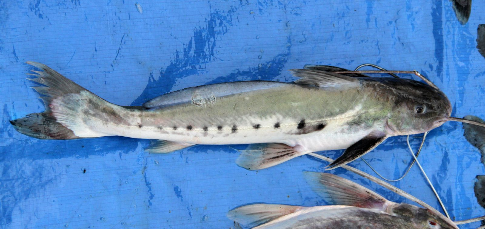 Callophysus macropterus